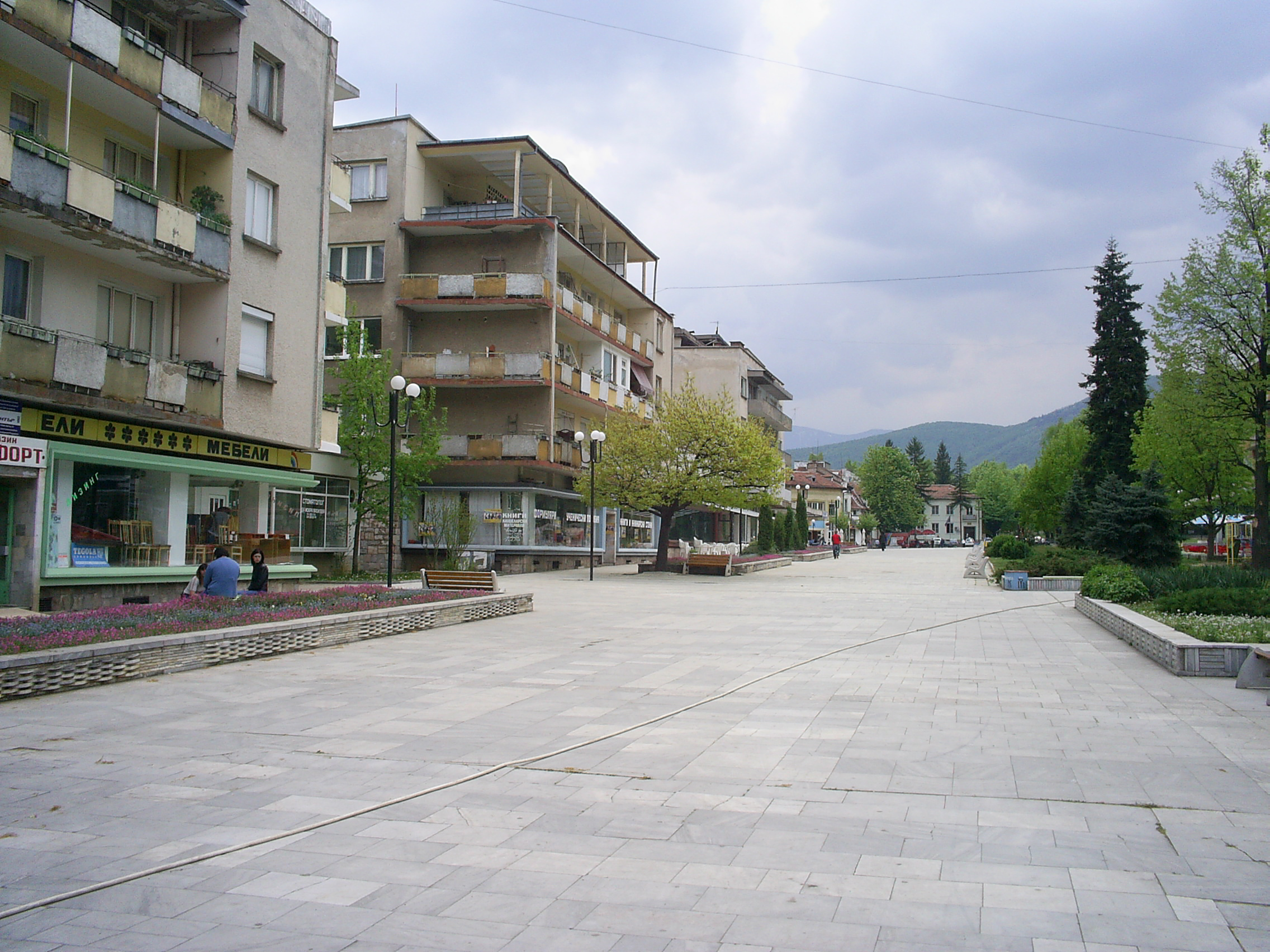 Central part of Berkovitsa, Bulgaria